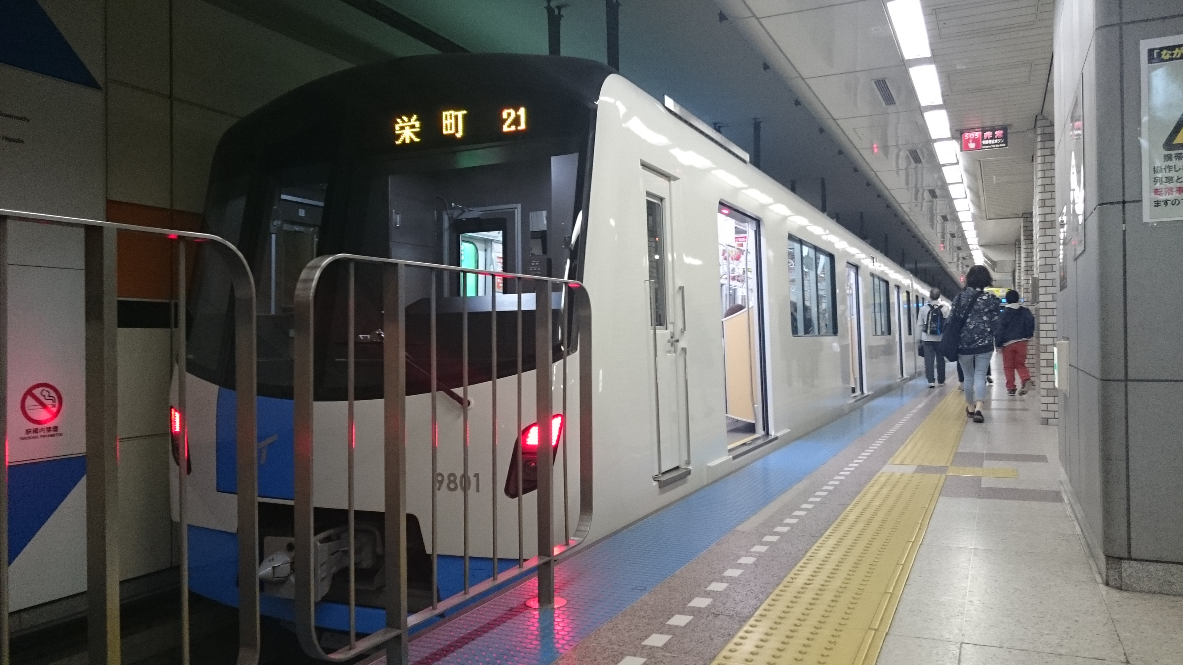 Sapporo Municipal Subway 9000 series EMU set 9101 at Fukuzumi Station